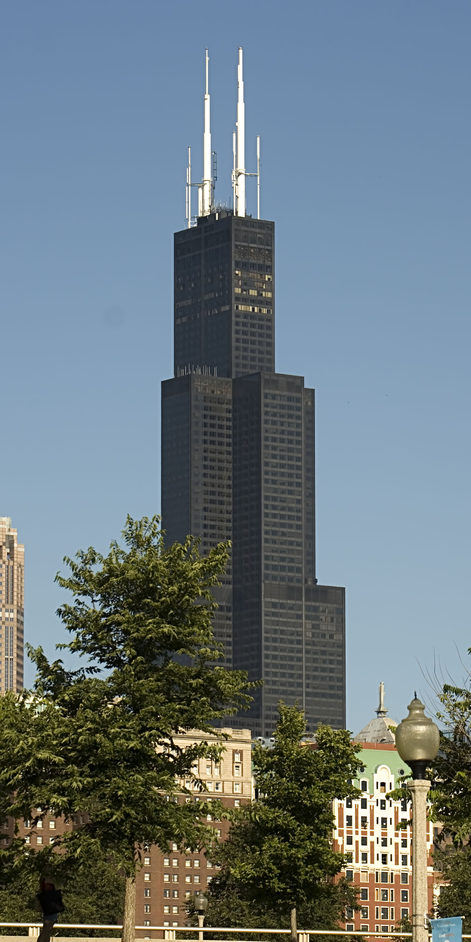 The Sears Tower, as seen from the Chicago lakeshore southeast of the Tower